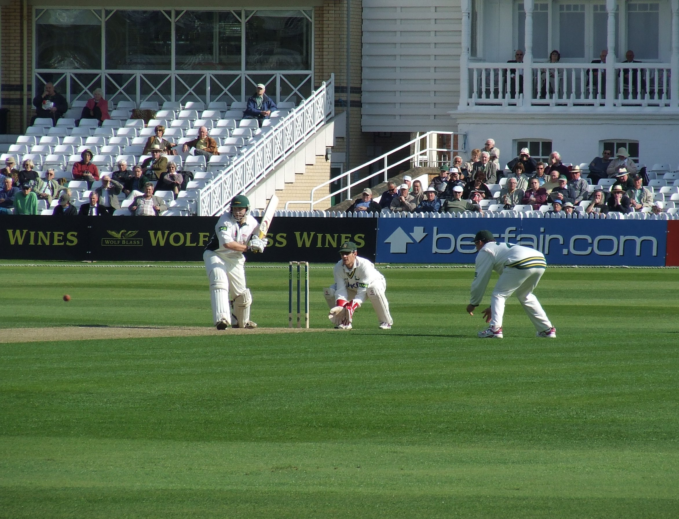 John Sadler bats for Leicestershire in a County Championship match against Nottinghamshire at Trent Bridge. Chris Read is the wicket-keeper.